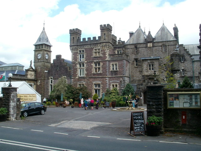 Craig-y-nos Castle — a 19th century Gothic revival style castle in Wales.